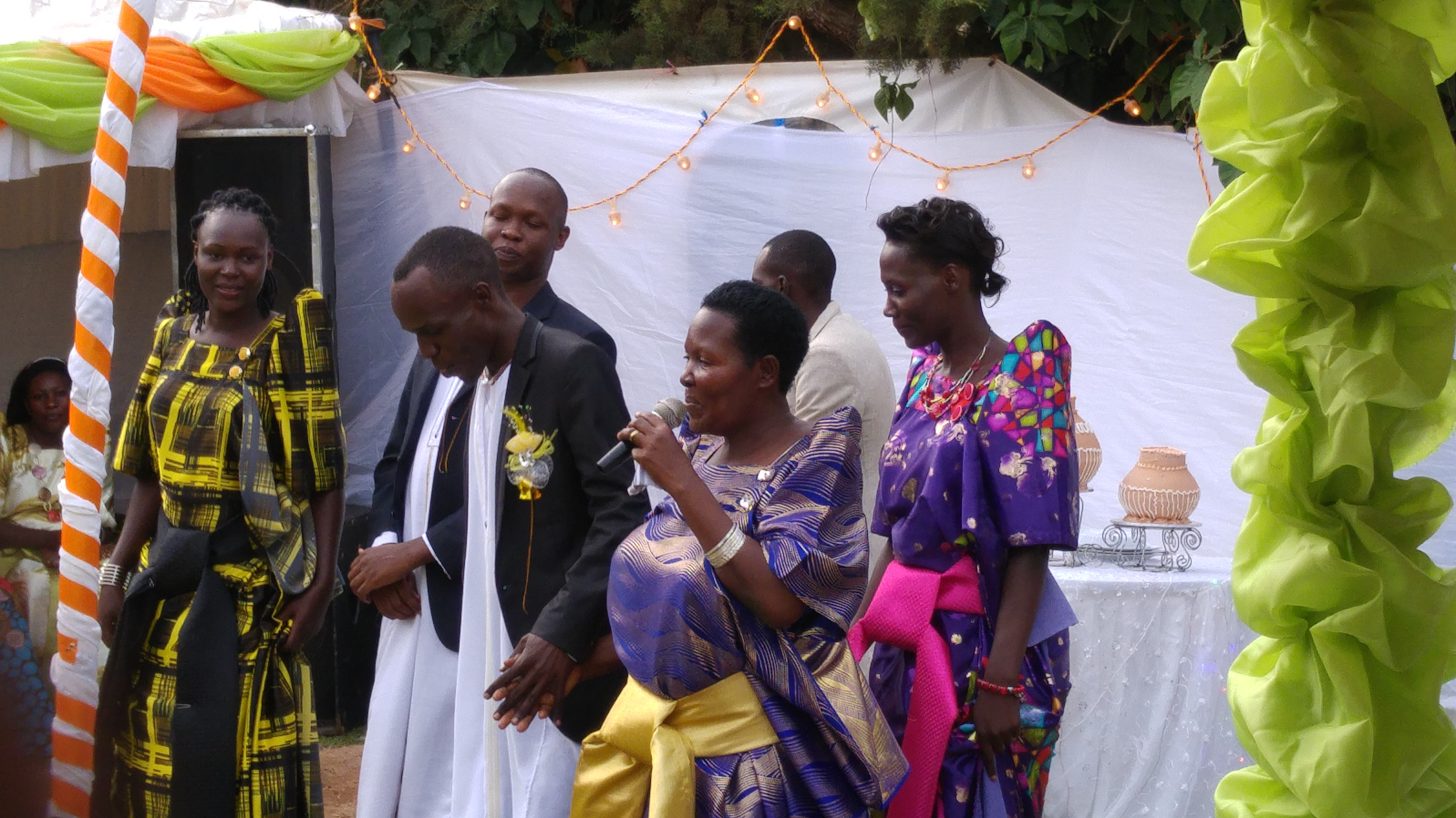 Here the bridge goo gets introduced to the family of his bride. This is an image of Cultural Fashion or Adornment from Uganda